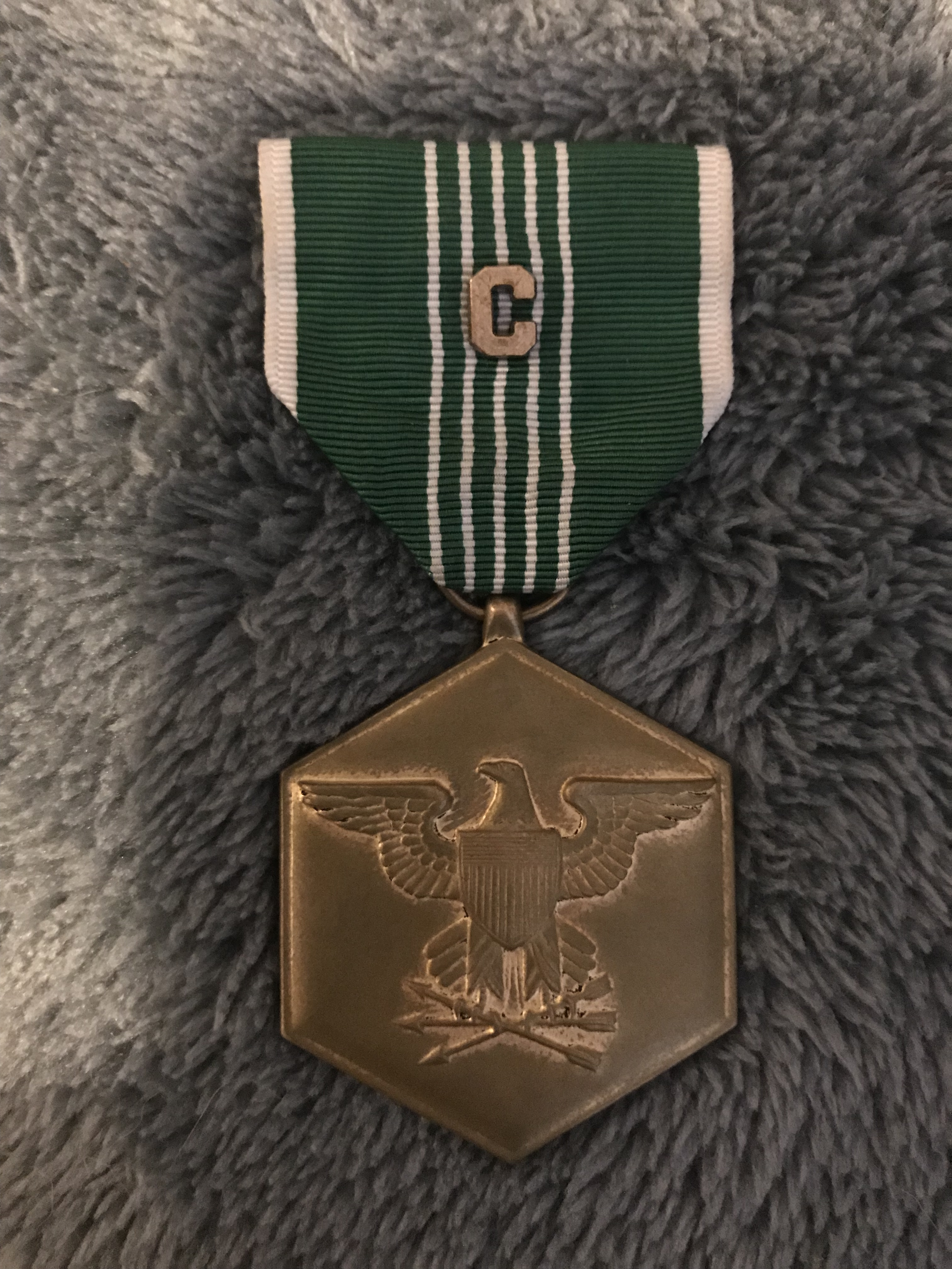 Army commendation medal with Combat “C”, unofficially named “Combat Commendation”